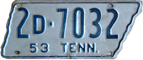 A 1953 Tennessee passenger license plate.